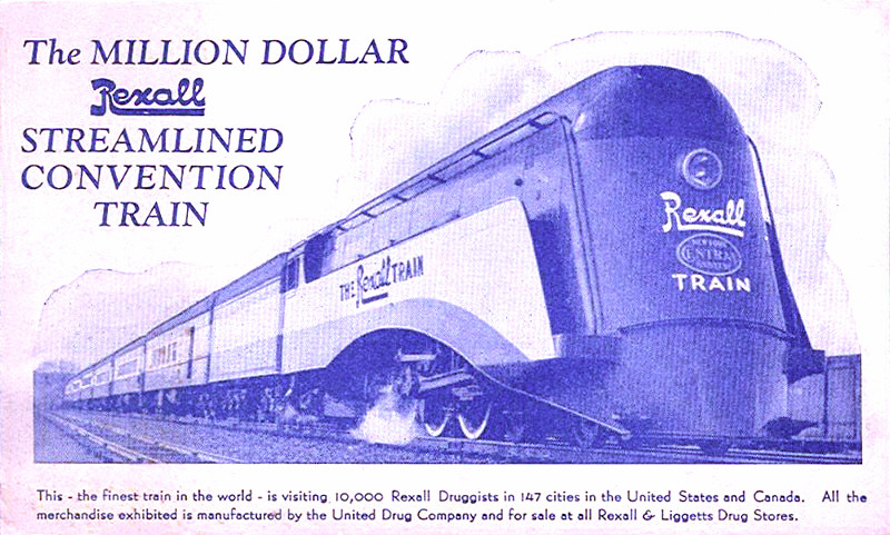 Postcard photo of the Rexall Train which traveled North America in 1936. Rexall was a chain of pharmacies in the United States and Canada. Since the effects of the Depression were still being felt by many people, the company's president had an idea to have a traveling Rexall convention instead of the traditional meeting in one place, which would save the attendees travel expenses. The train's stops were where its local conventions would meet; the public could tour the 12 car train, which had displays of Rexall products as well as meeting areas via a free ticket from a local Rexall store. The train was leased from the New York Central Railroad and its locomotive was a streamlined 4-8-2 "Mohawk" type.